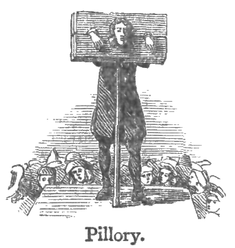 Illustration from 1908 Chambers's Twentieth Century. Pillory, n. a wooden frame, supported by an upright pillar or post, and having holes through which the head and hands of a criminal were put as a punishment, disused in England since 1837.